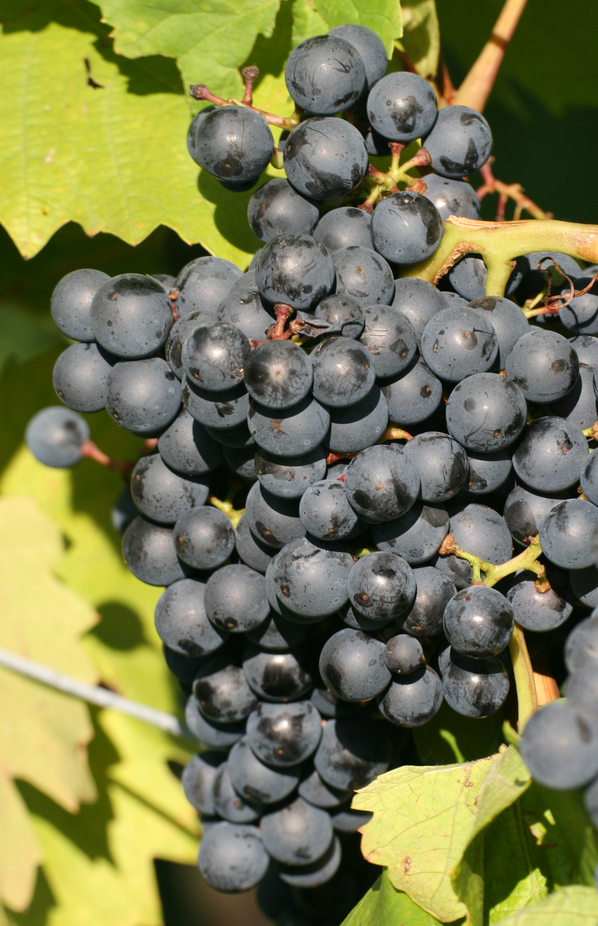 Grapes and leaves of the grape variety Lemberger, photographed in Lehrensteinsfeld